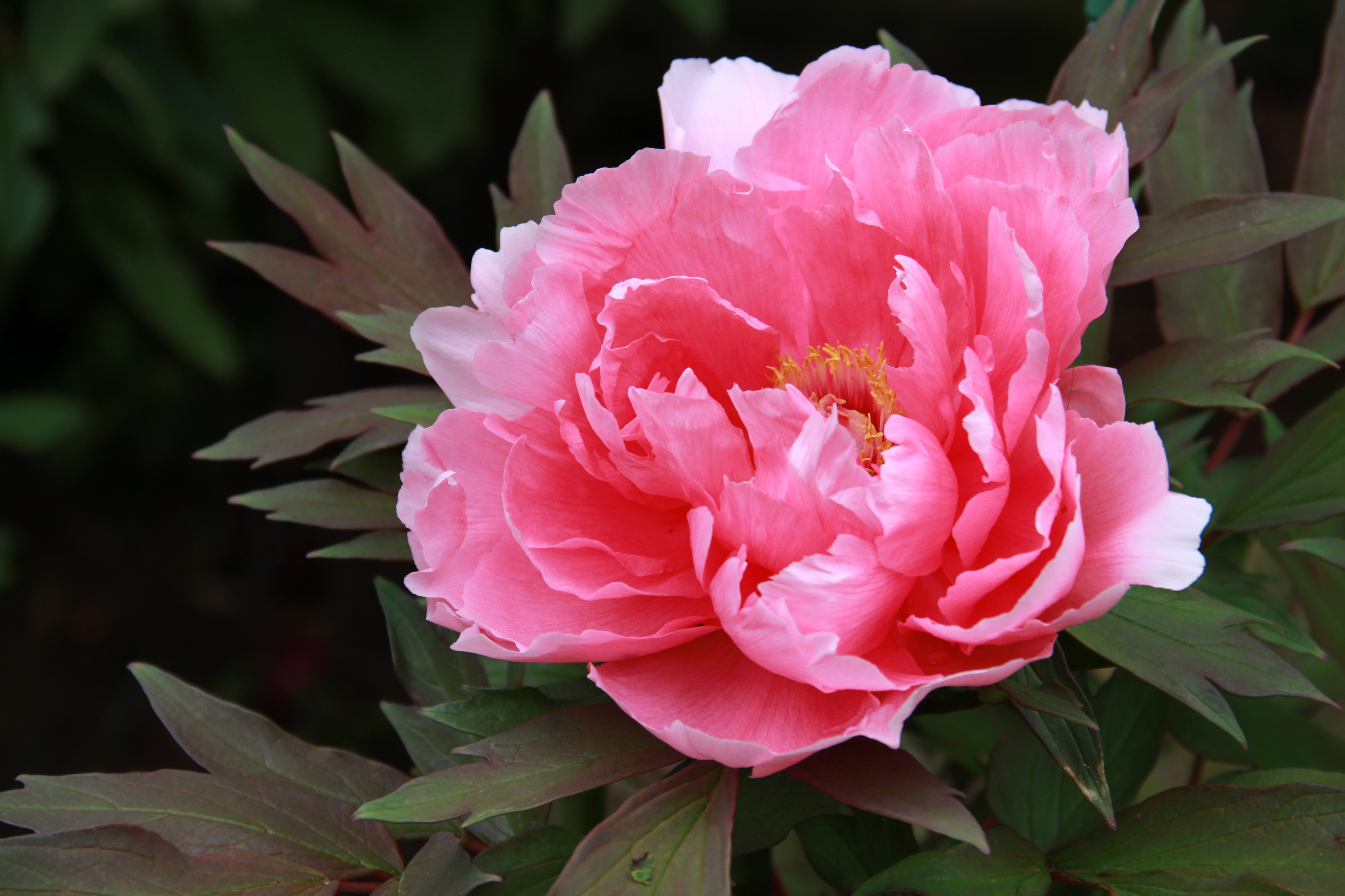 Paeonia Suffruticosa